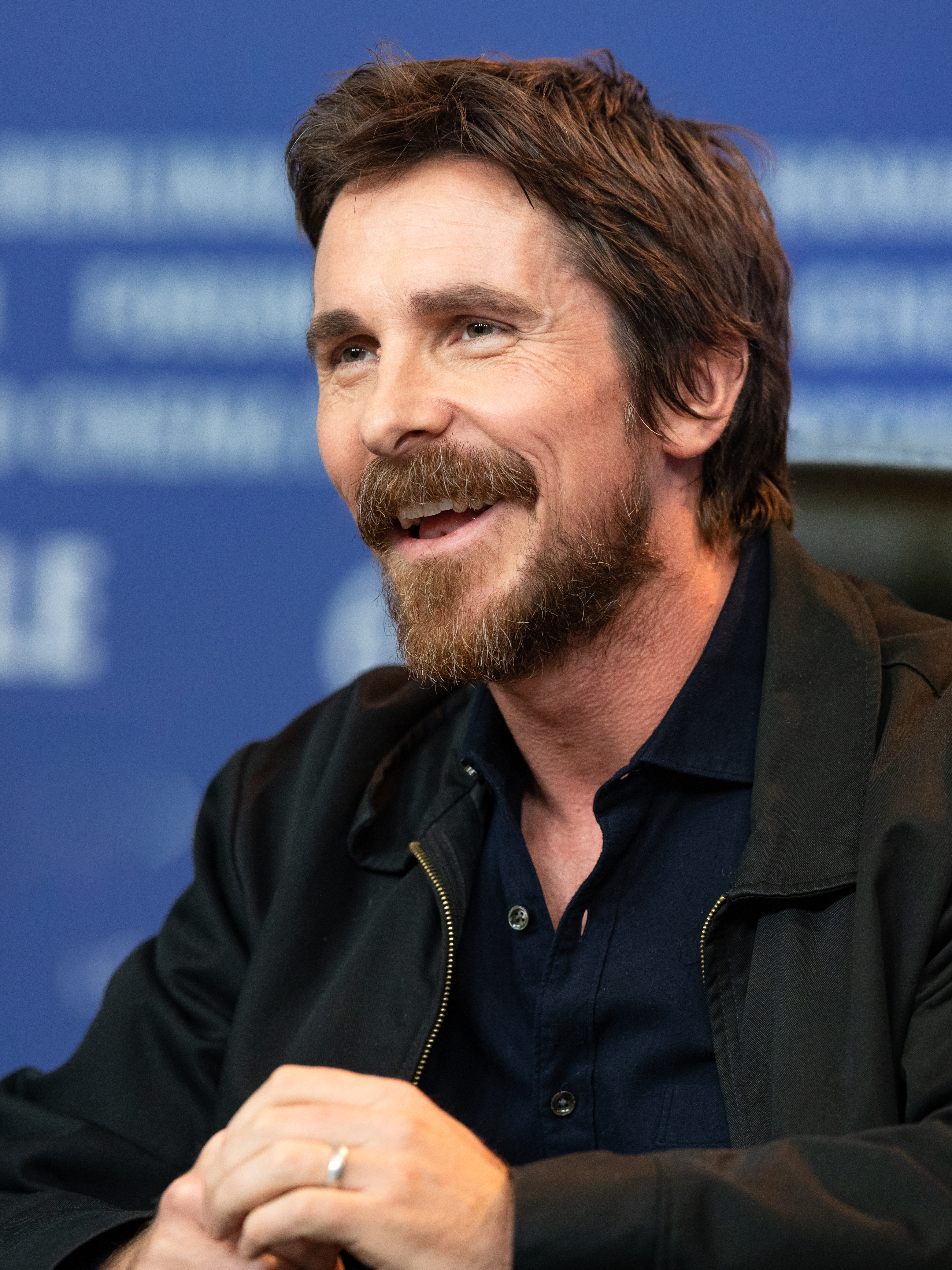 Christian Bale presenting the movie "Vice" at the Berlinale 2019